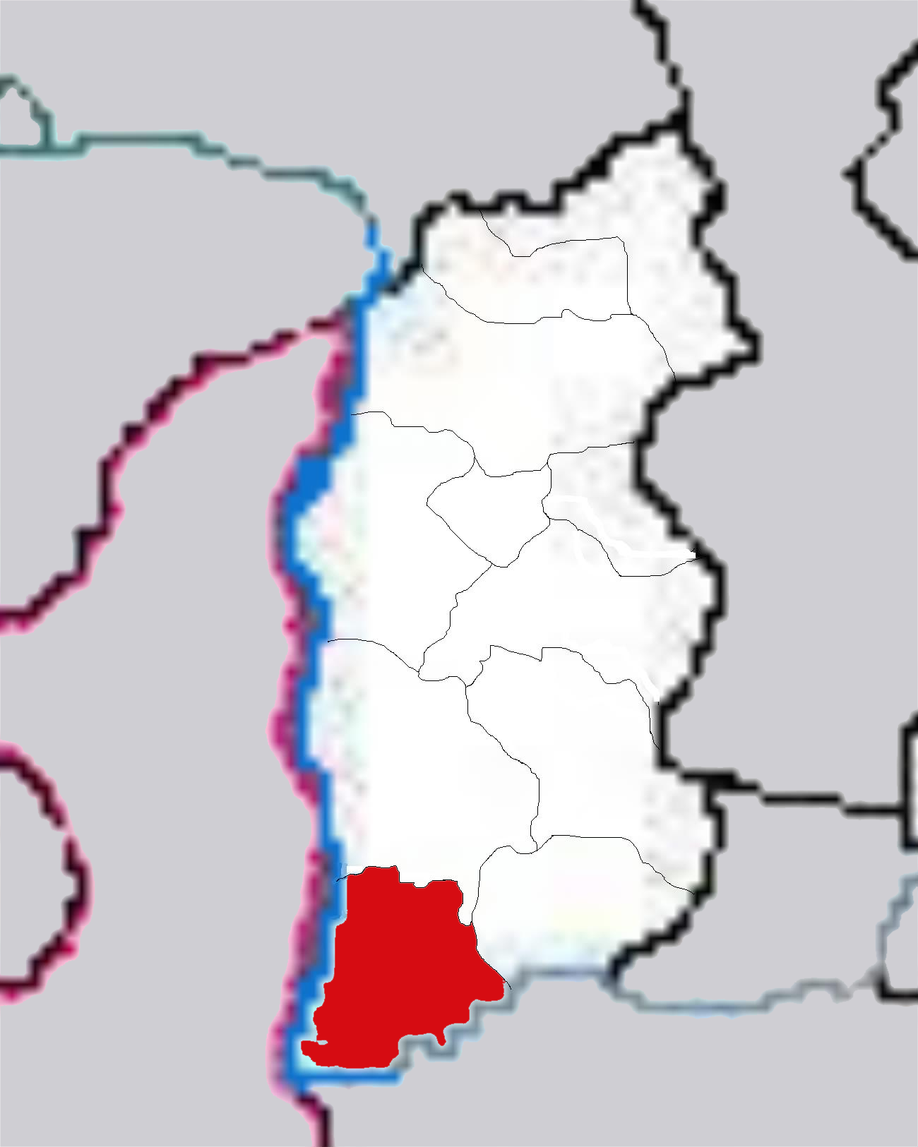 Maps of Shanxi Province of China